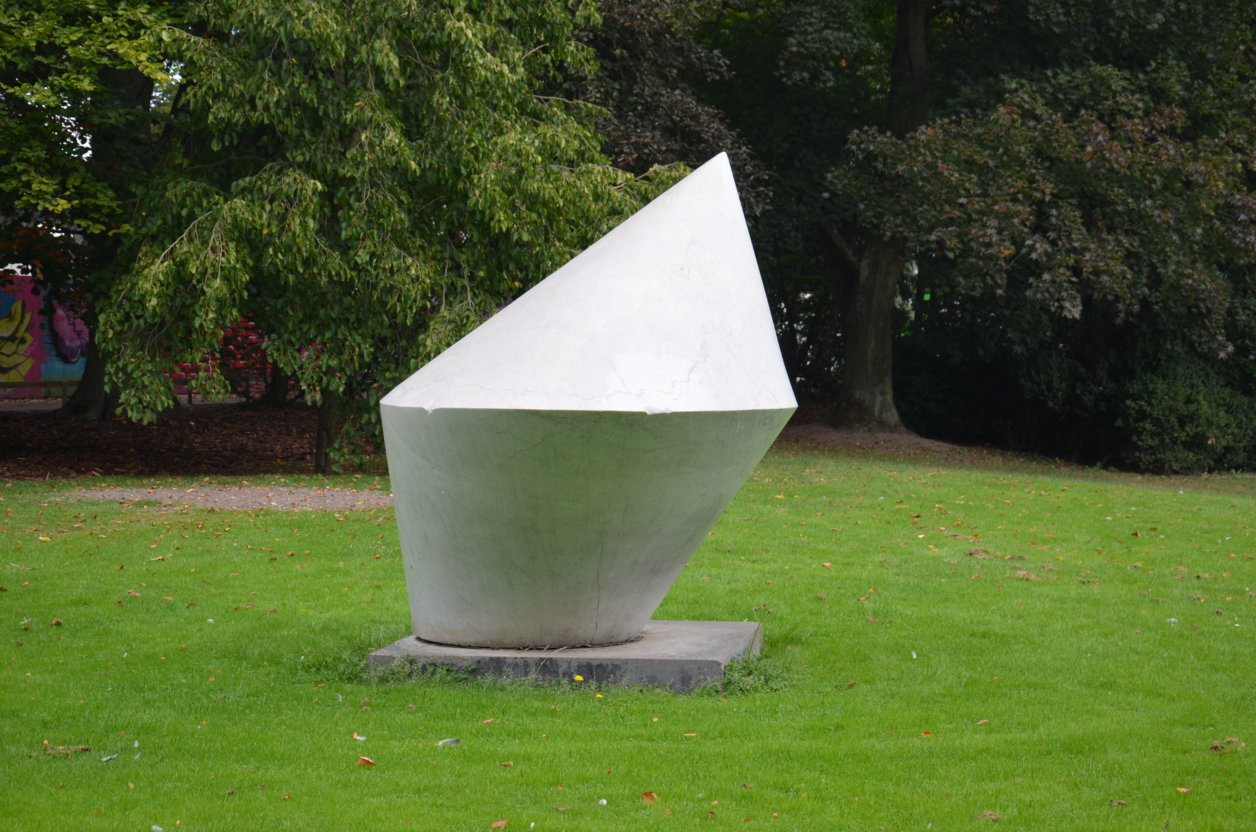 Gert Marcus' Kropp och linje, Stadsparken i Lund